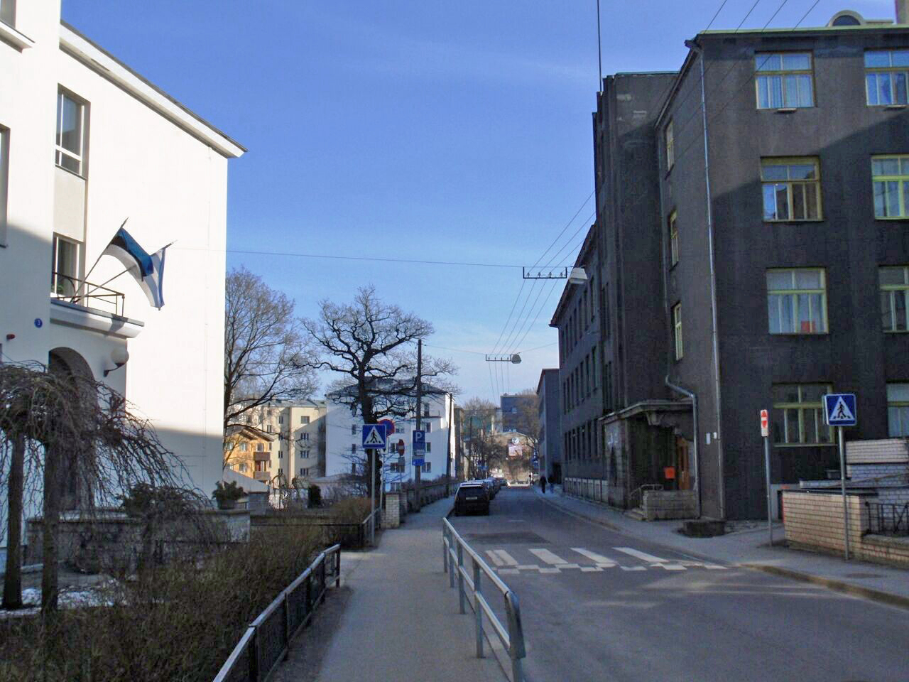 Hariduse street in Tallinn, Estonia.